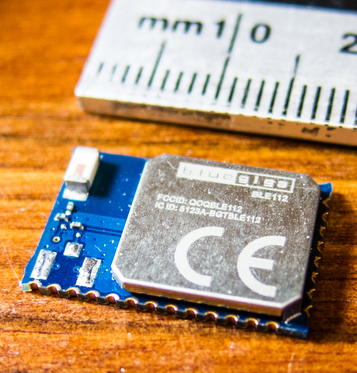 Photograph of a programmable Bluetooth Low Energy module from Bluegiga